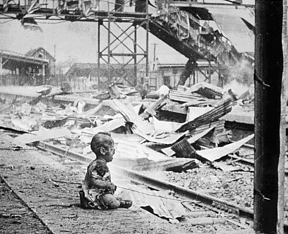 This terrified baby was one of the only human beings left alive in Shanghai's South Station after the brutal Japanese bombing in China, August 28, 1937.